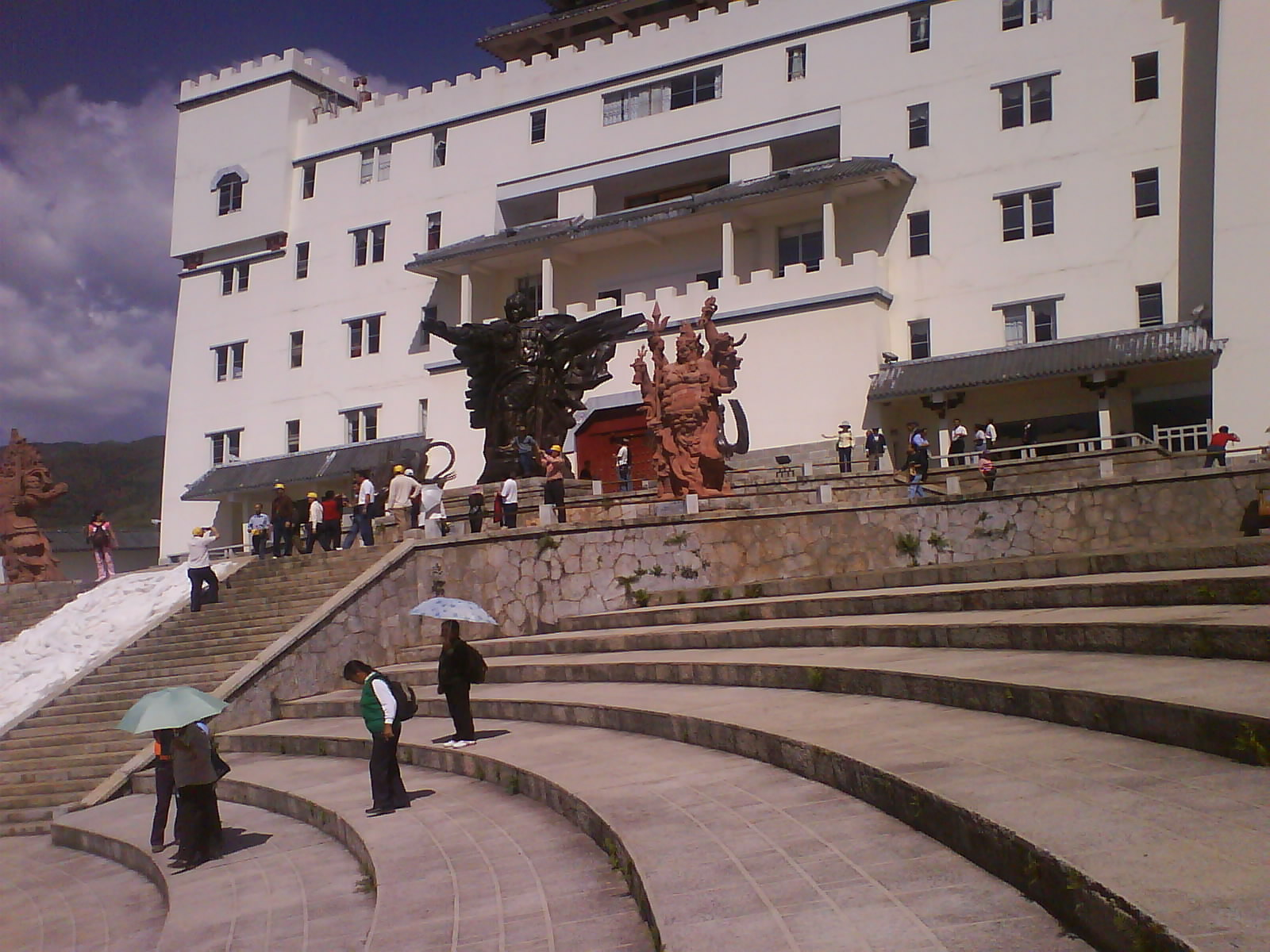 Nanzhao dynasty gods statues and castle on Nanzhao Folklore Island, Erhai Lake, Yunnan province, China